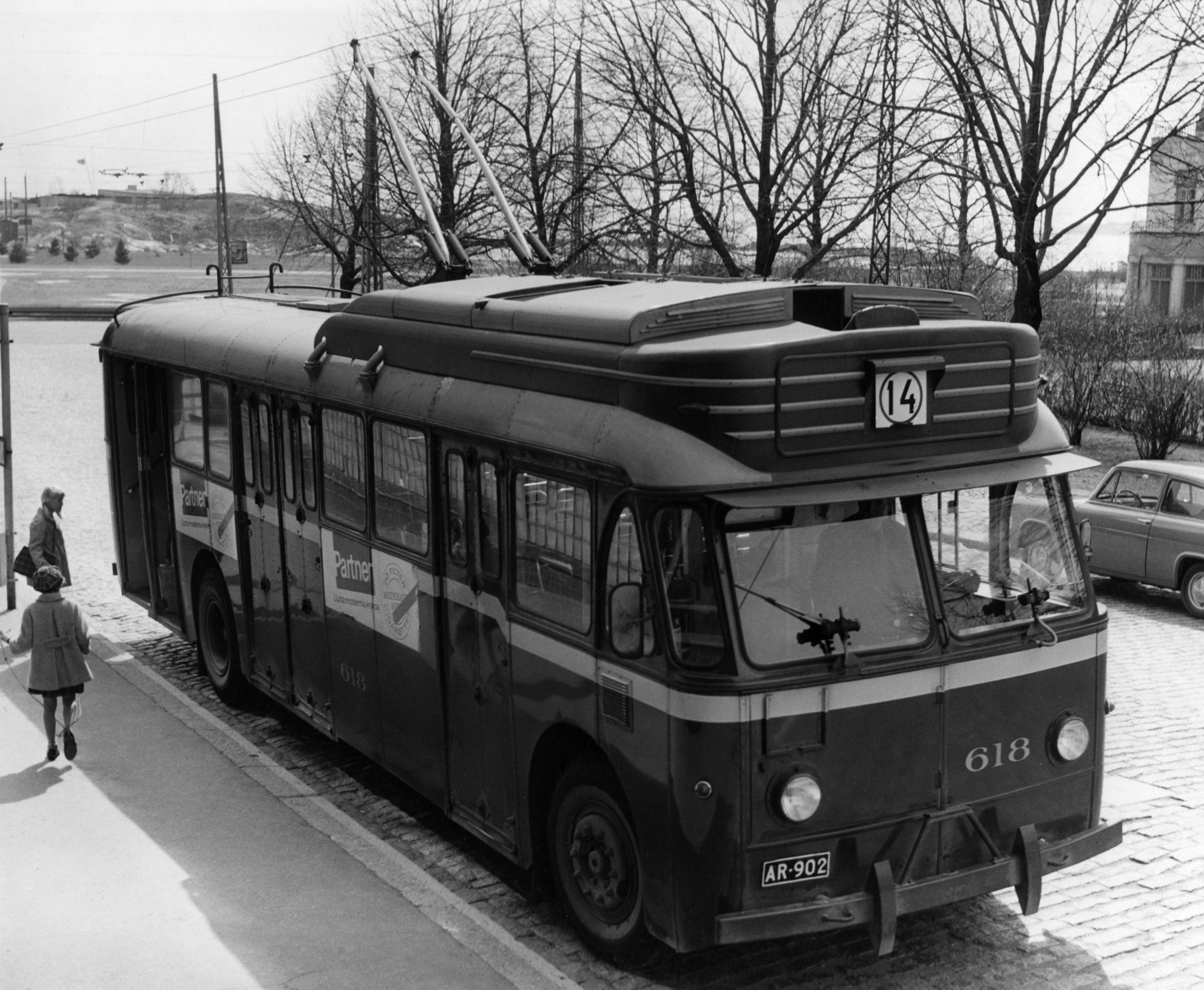 BTH Valmet D 200650/JH trolleybus (1953, AR-902, #618) in Helsinki